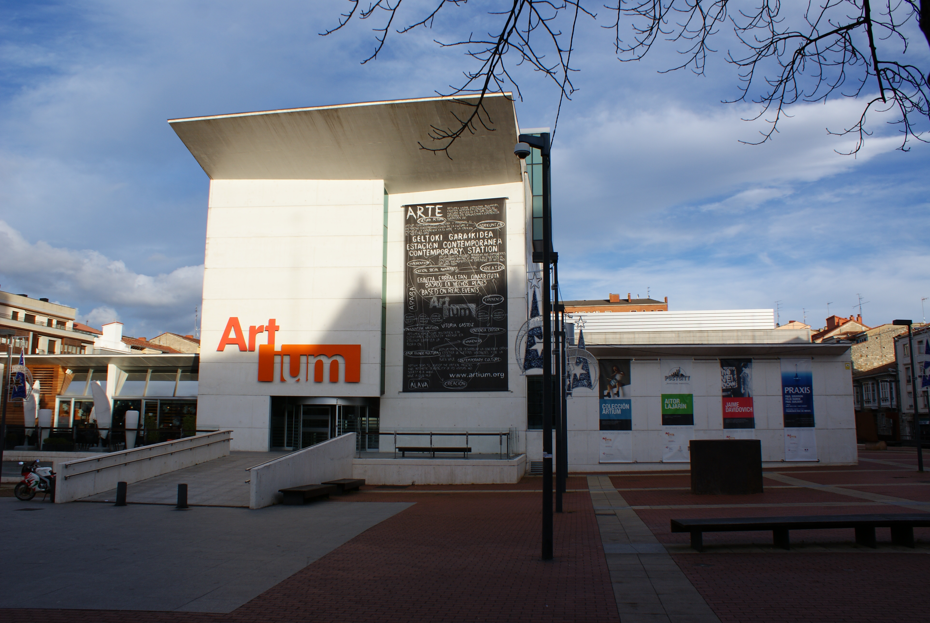 Front view of Artium contemporary art gallery, Vitoria-Gasteiz, Basque Country.